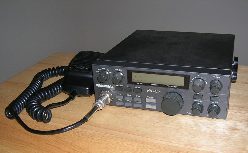 10 Meter 2Way Radio